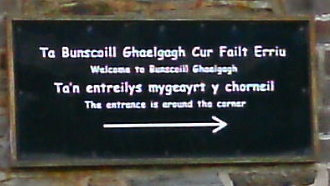 Signage at the Bunscoill Ghaelgagh, St John's IOM, Oct 2017